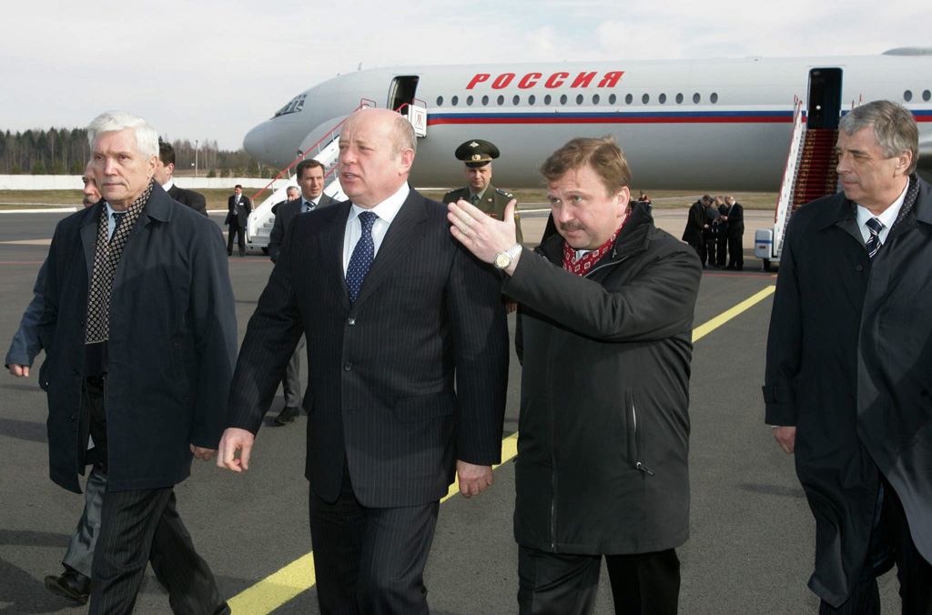 “Alexander Surikov, Mikhail Fradkov, Andrei Kobyakov and Pavel Borodin”. Left to right: Russia's ambassador to Belarus Alexander Surikov, Russian Prime Minister Mikhail Fradkov, Belarus's Deputy Prime Minister Andrei Kobyakov and Pavel Borodin, secretary of the Russia-Belarus Union, meeting at an airport in Minsk.